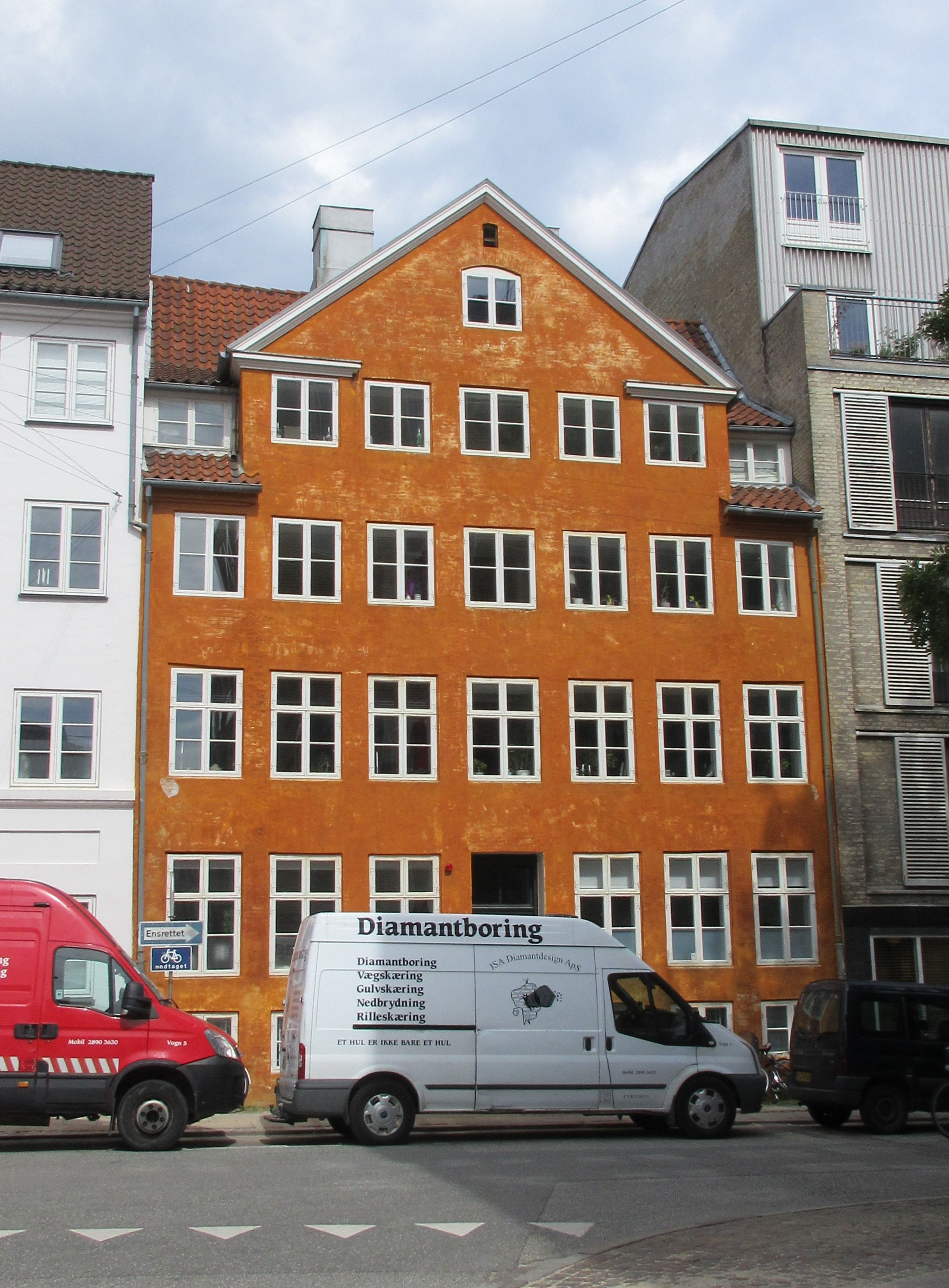 Åbenrå 26 in Copenhagen, Denmark